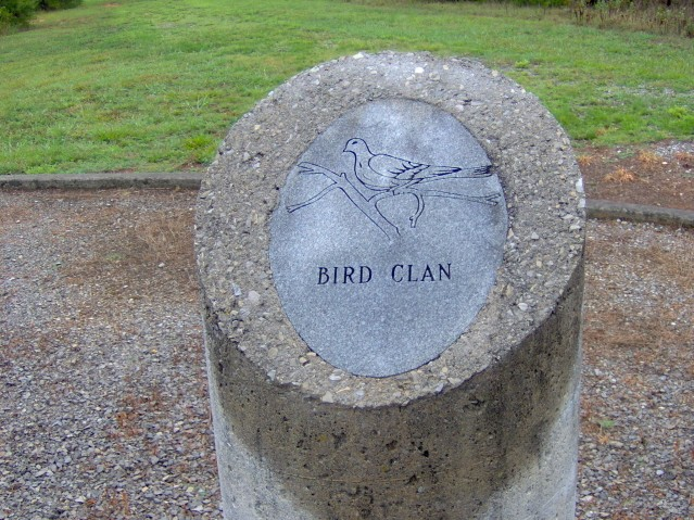 The Bird Clan pillar at the Chota Monument in Monroe County, Tennessee, in the southeastern United States. This pillar is one of eight pillars representing the seven Cherokee clans and the Cherokee Nation. The monument rests directly above Chota's ancient townhouse.